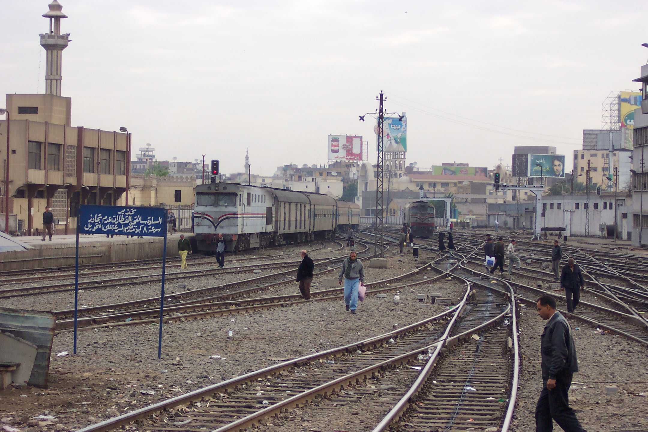 Railways in Cairo, Egypt